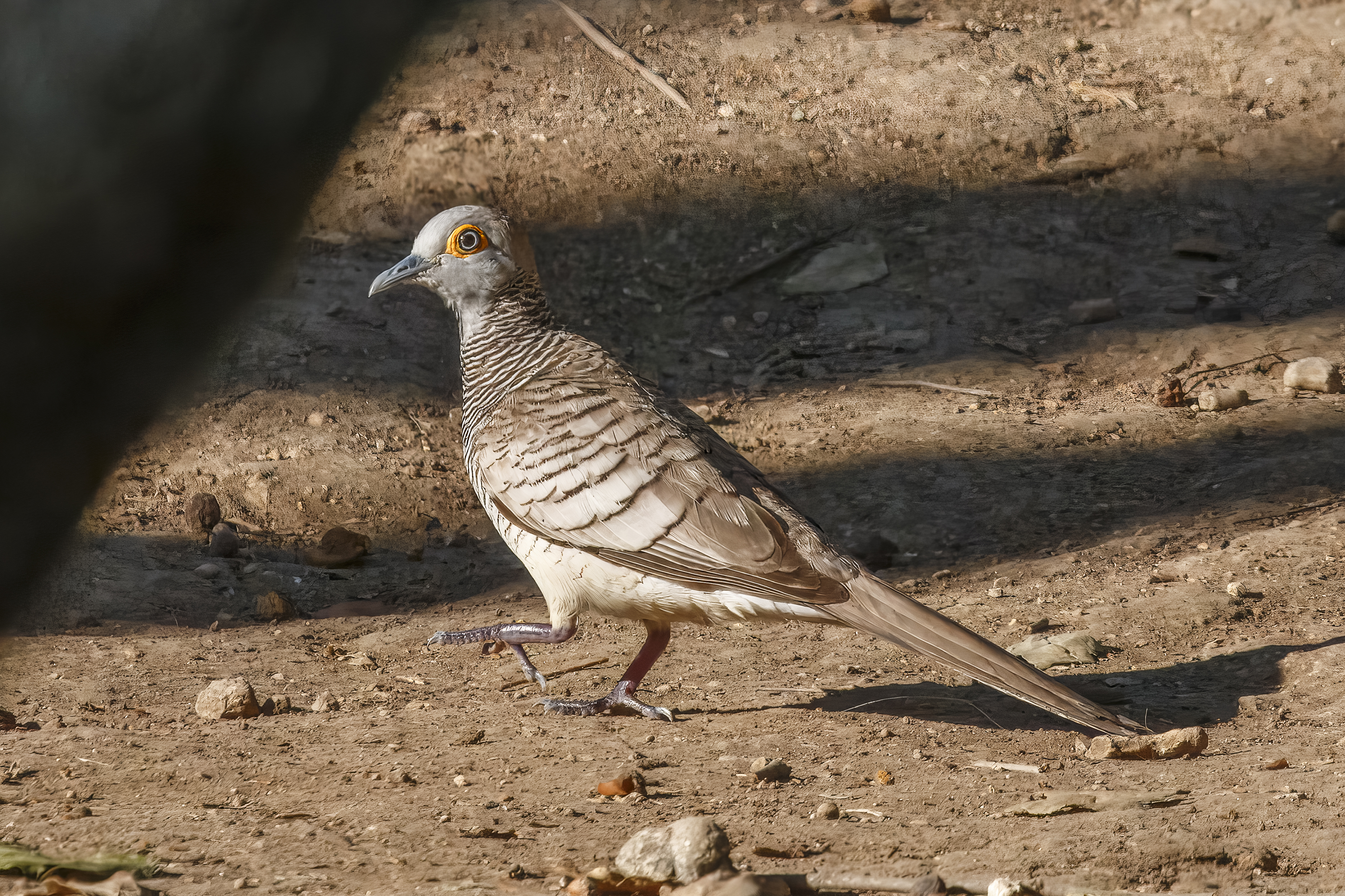 Barred dove (Geopelia maugei), Rinca, Indonesia